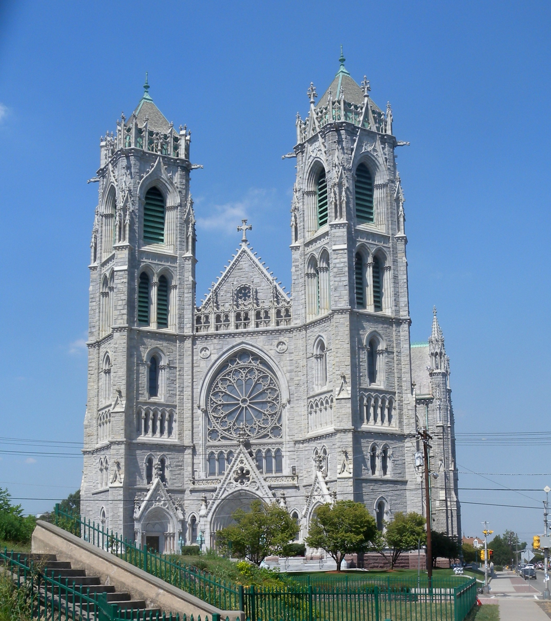 Looking north from the east (Clifton Avenue) side of the hill in eastern Branch Brook Park, at Sacred Heart on a sunny midday.